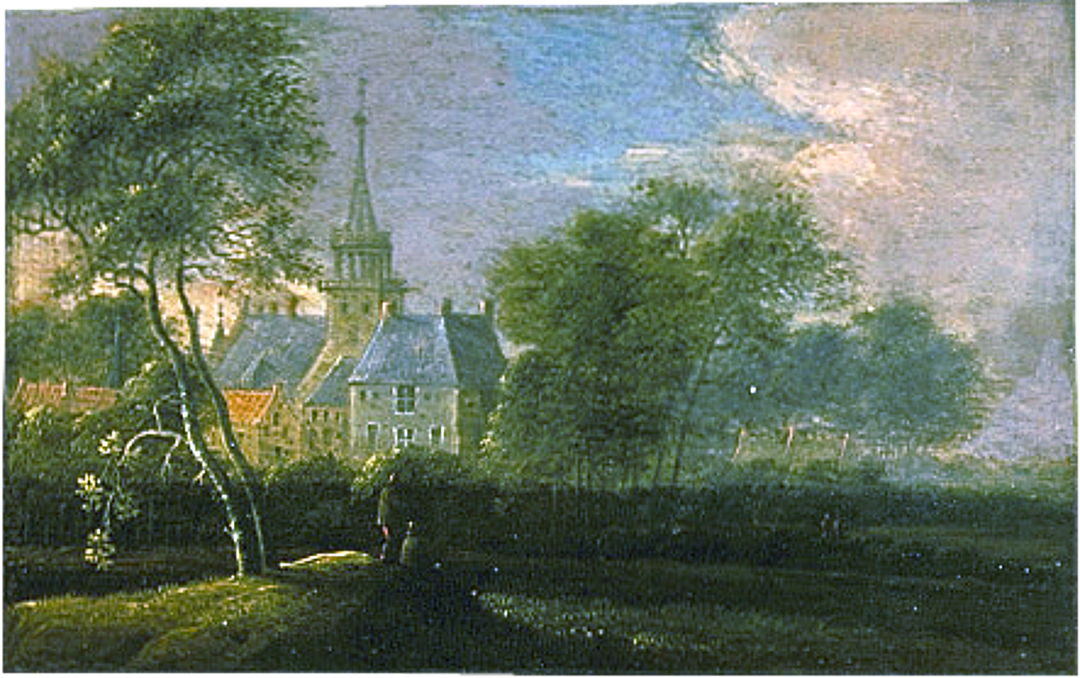 Westerbeek Castle in The Hague, 17th century.